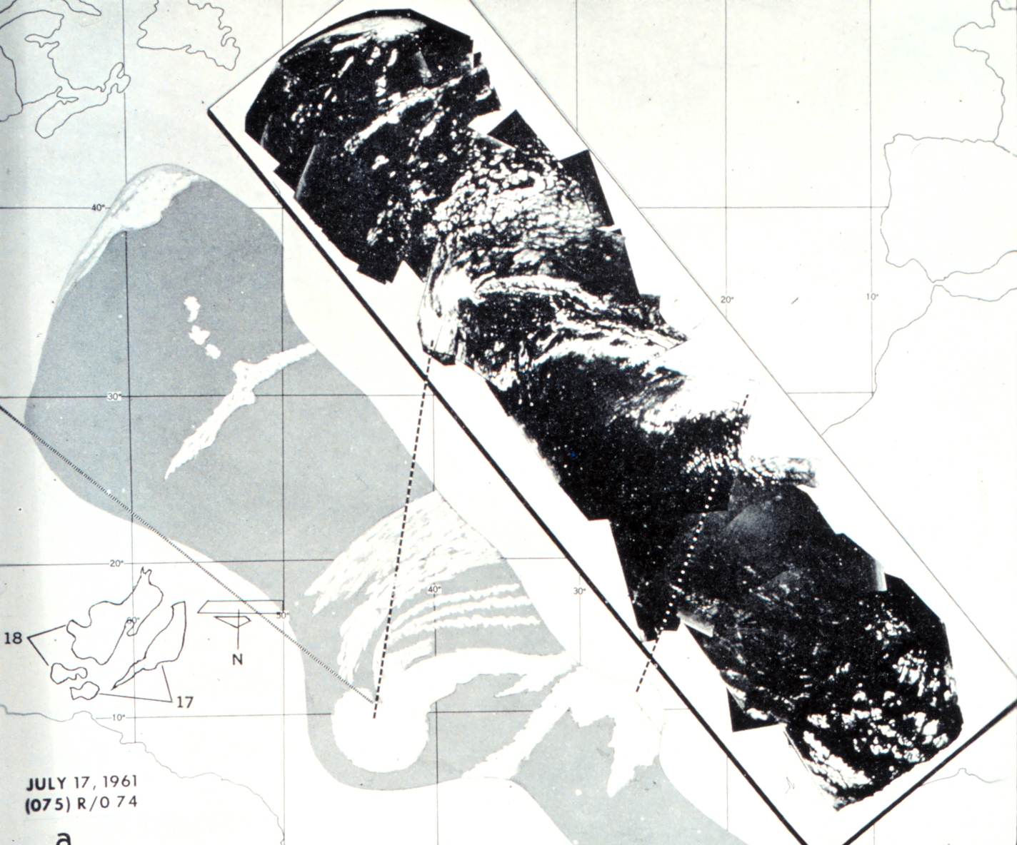 A composite of TIROS 3 pictures. The main cloud mass located near 12 N, 43 W later developed into Hurricane Anna. The picture projects down on to the map. The dashed lines correlate photography with the cloud interpretation on the map. Images was taken on 17th July 1961, near 1440 GMT